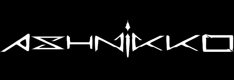 Logo of singer Ashnikko